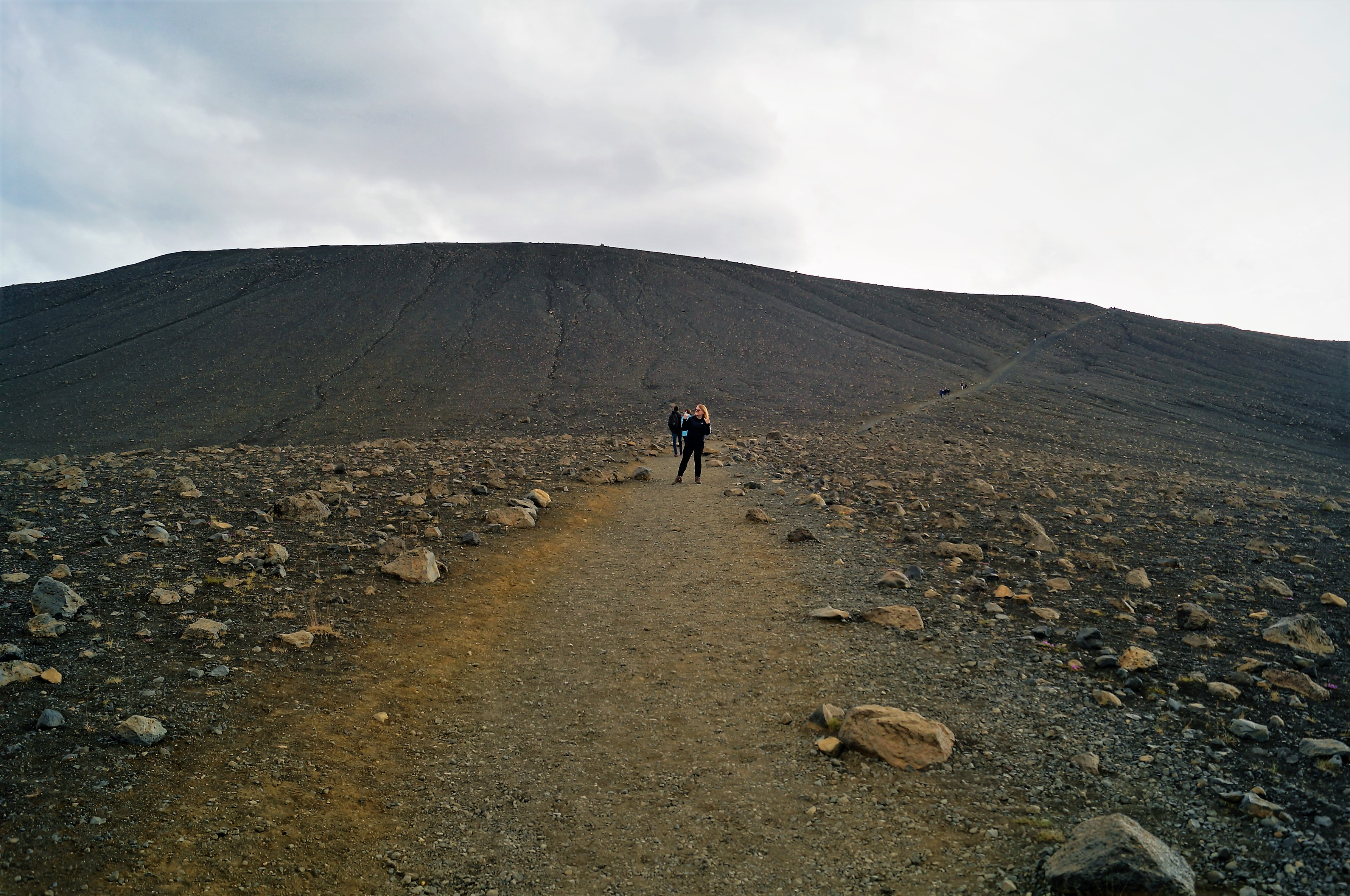 Trail to Hverfjall